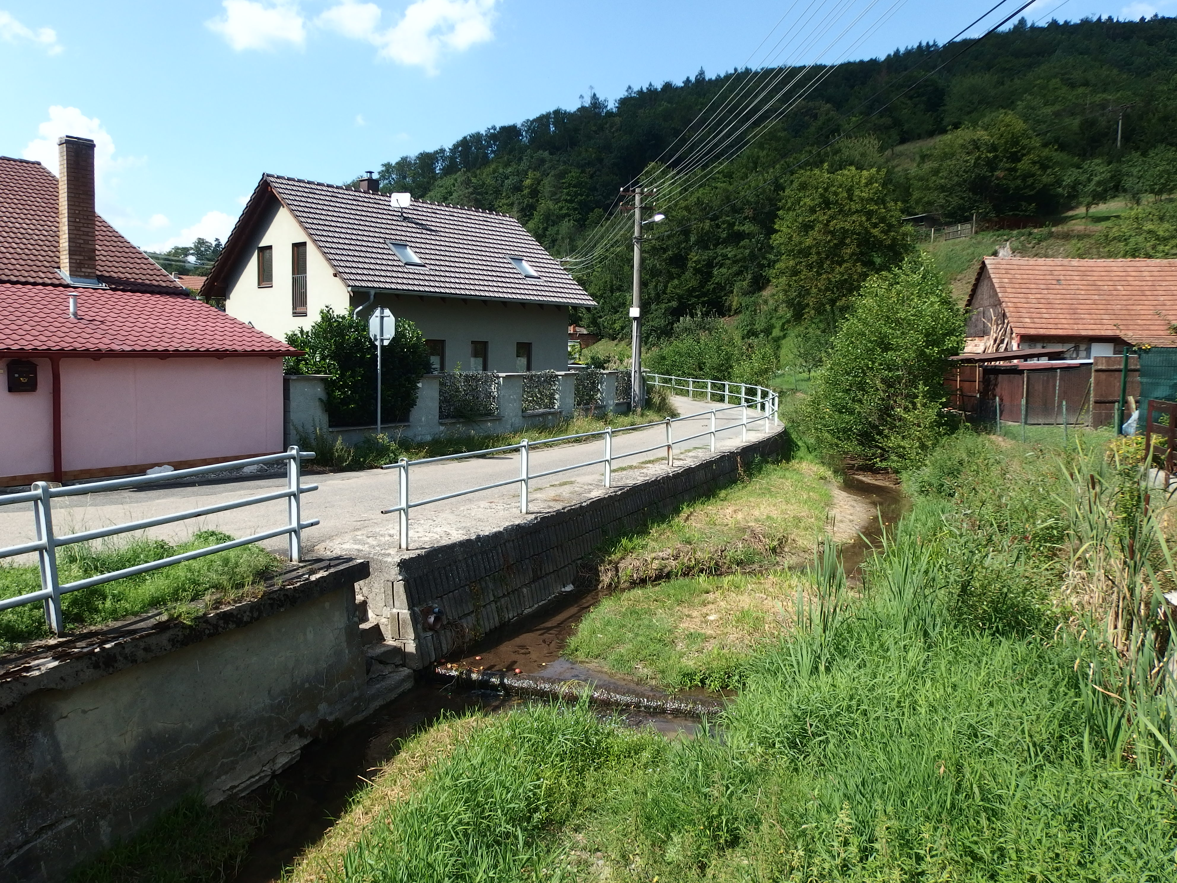 Salaš in Uherské Hradiště District, Czech Republic. Brook Salaška.